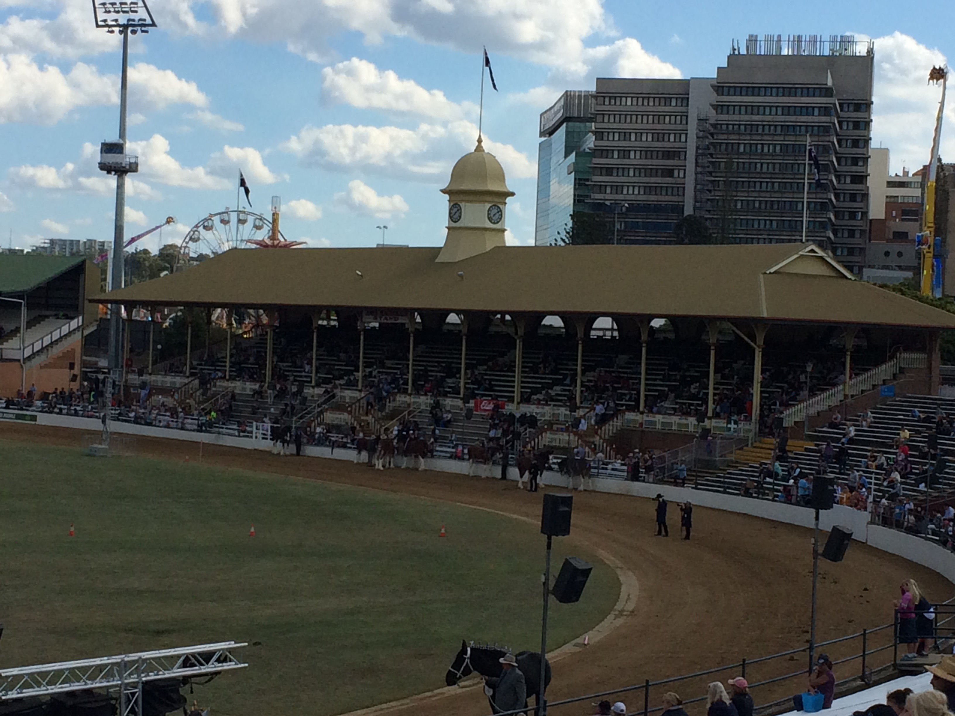 John McDonald Stand, Ekka, Brisbane, 2015